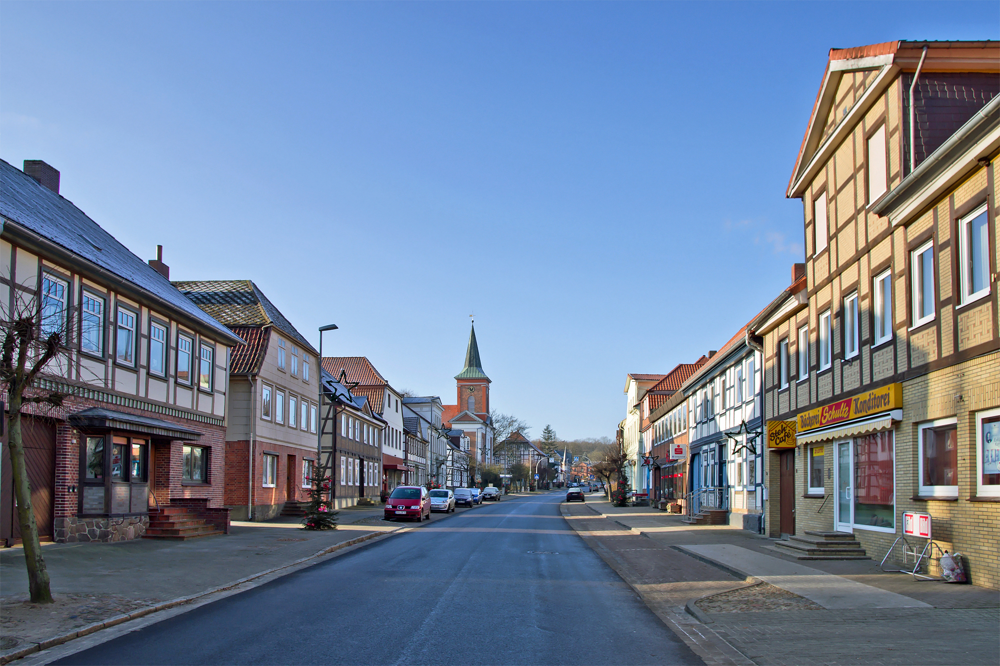 Main street "Breite Strasse" in Bergen/Dumme (district Lüchow-Dannenberg, northern Germany); in the background church St. Paul. View westward.